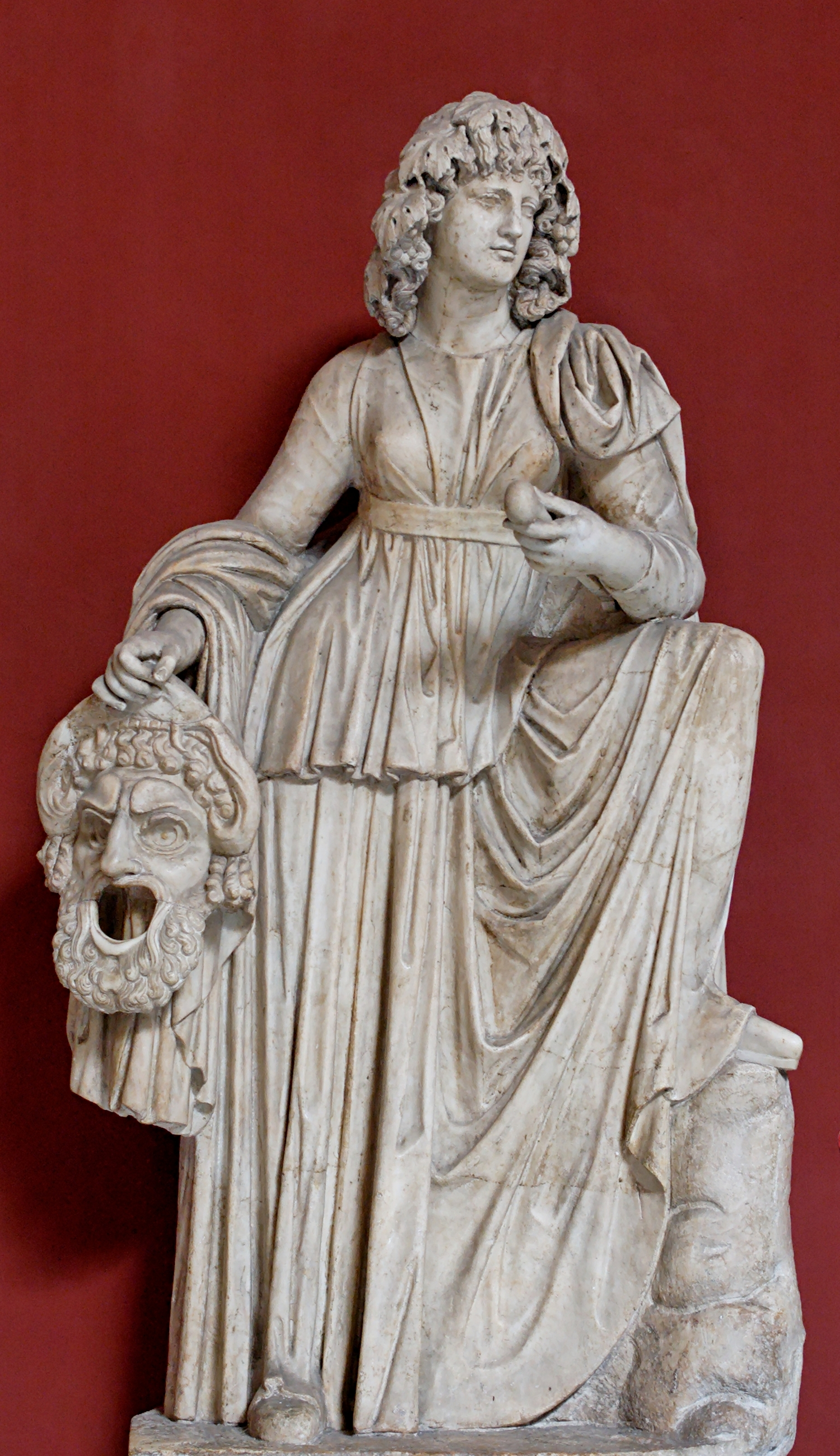 Melpomene, Muse of tragedy. Marble, Roman artwork from the 2nd century CE.